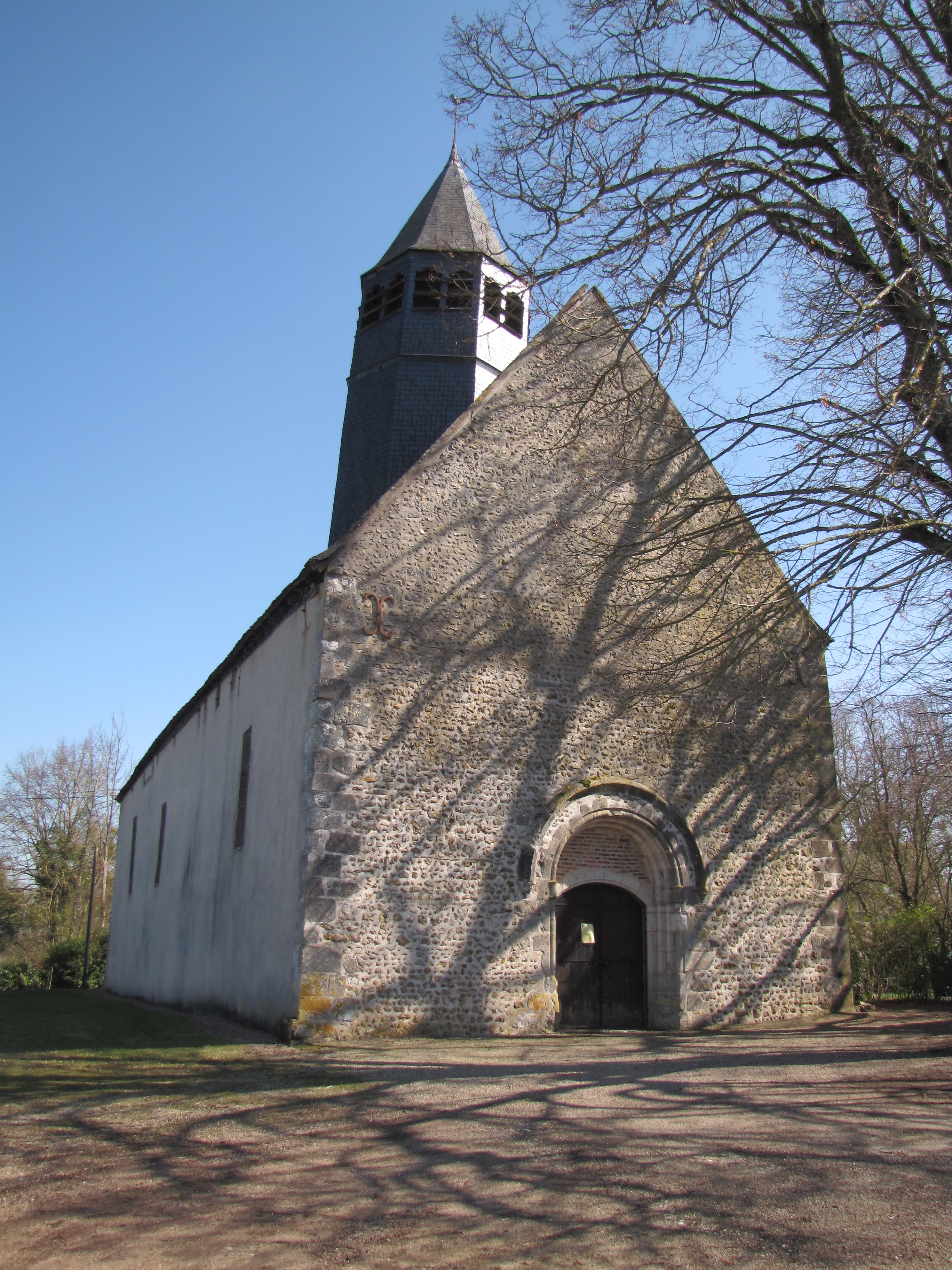 Fontenouilles, Yonne (France) - Saint-Vérain church, XVIth century. Partially restored in 1931, it has recently benefited from more care and a new weathercock(erel :)